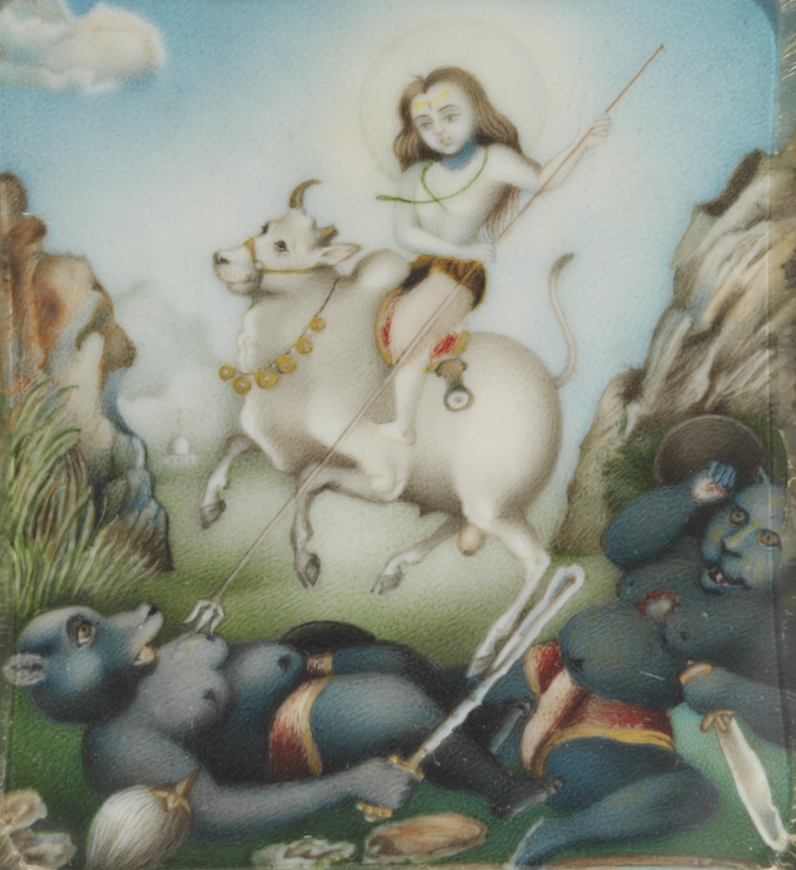 Physical description This painting depicts Shiva on the bull Nandi, destroying demons. Place of Origin Jaipur, India (made) Date ca. 1880 (made) Artist/maker Unknown (production) Materials and Techniques Watercolour on ivory Dimensions Length: 8 cm, Width: 7 cm Object history note This painting was purchased at the Colonial and Indian Exhibition, 1886. Descriptive line Painting; Watercolour on ivory, Shiva on the bull Nandi, destroying demons, Jaipur, ca.1880 Bibliographic References (Citation, Note/Abstract, NAL no) Archer, Mildred. Company Paintings Indian Paintings of the British period Victoria and Albert Museum Indian Series London: Victoria and Albert Museum, Maplin Publishing, 1992 223 p. ISBN 0944142303 Materials Watercolour; Ivory Techniques Painted Categories Company paintings Collection code IND